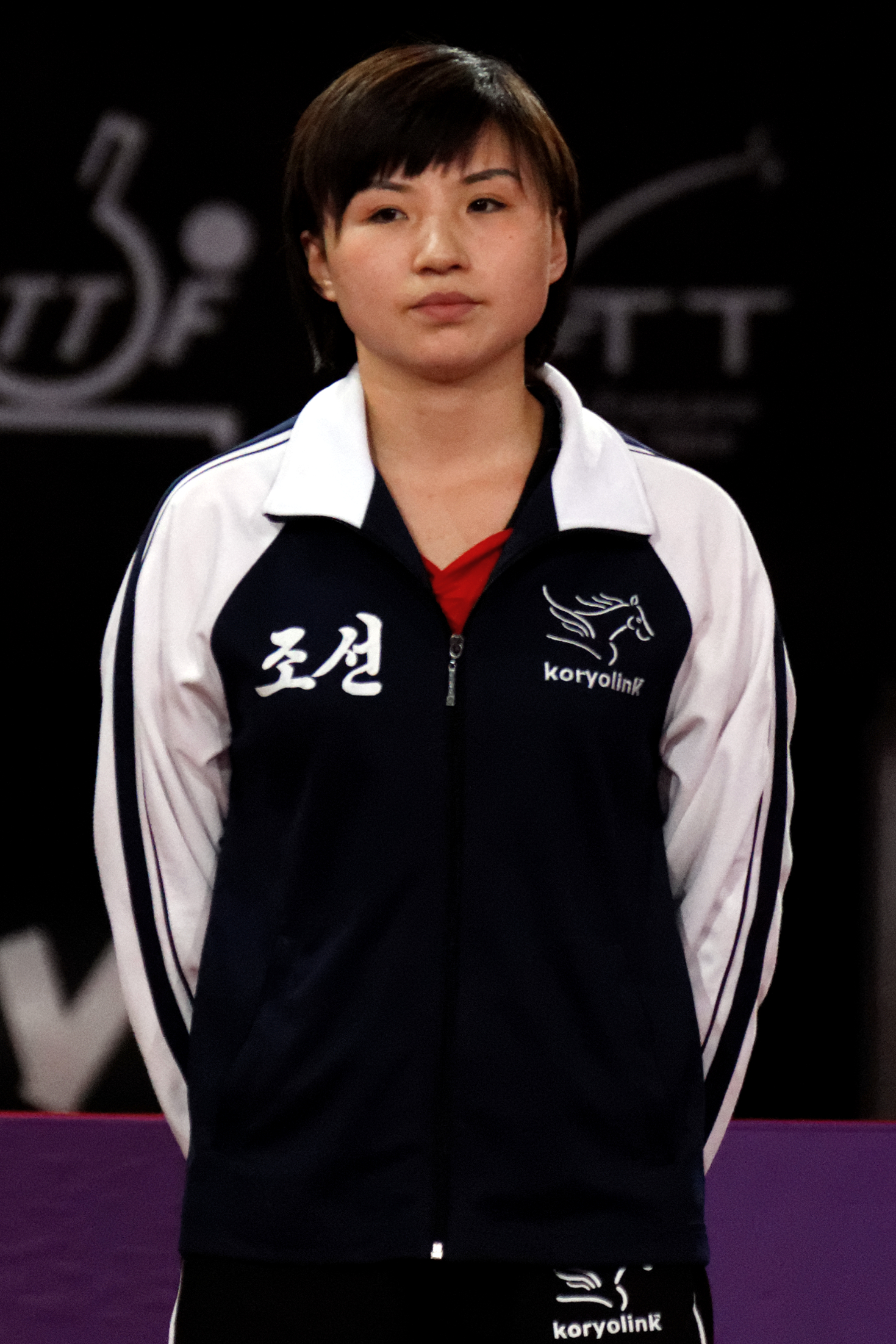 2013 World Table Tennis Championships, Paris. Mixed Doubles Final. Lee Sang-Su and Park Young-Sook vs Kim Hyok-Bong and Kim Jong.